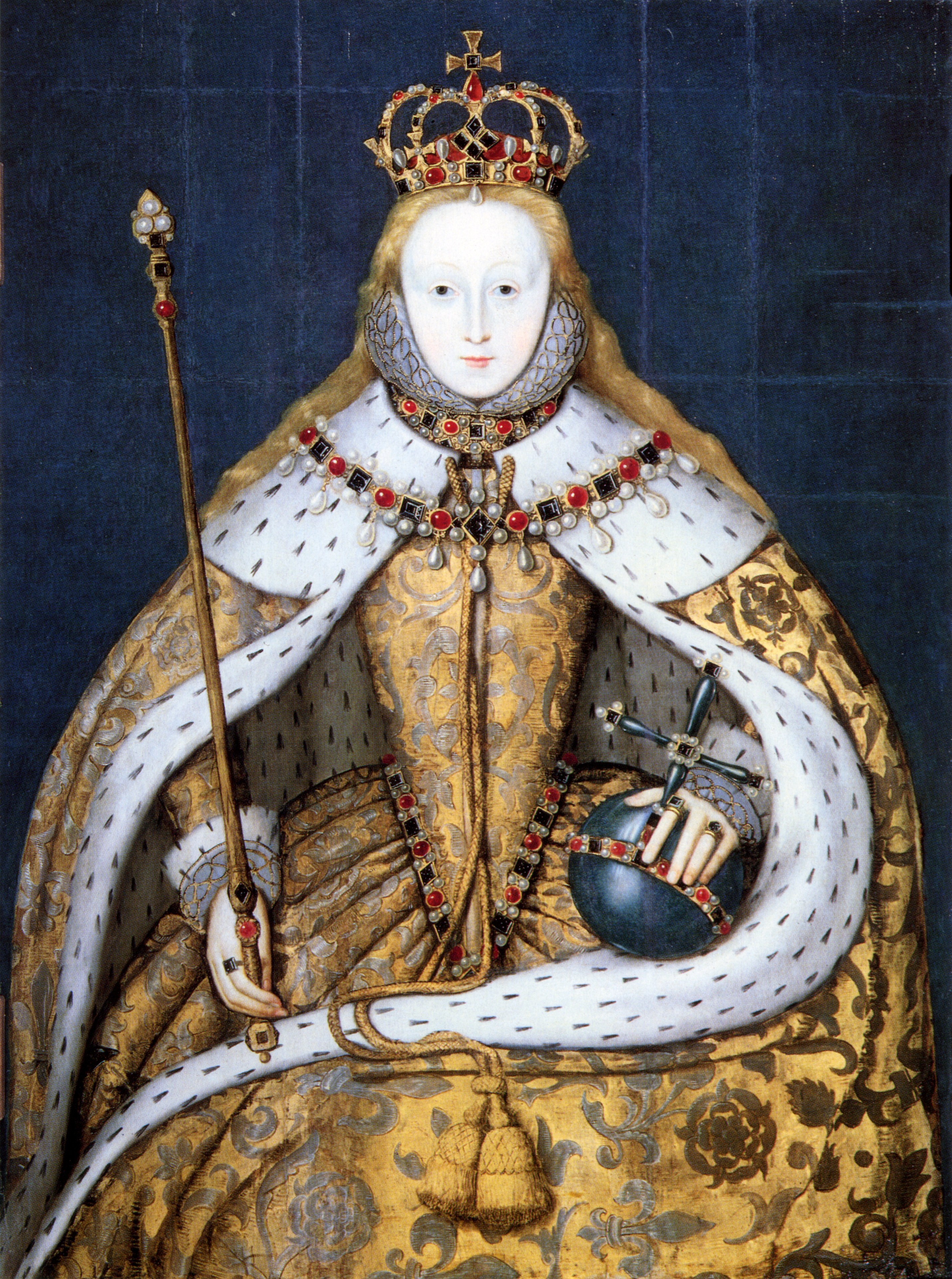 Queen Elizabeth I of England in her coronation robes, patterned with Tudor roses and trimmed with ermine. She wears her hair loose, as traditional for the coronation of a queen, perhaps also as a symbol of virginity. The painting, by an unknown artist, dates to the first decade of the seventeenth century (NPG gives c.1600) and is based on a lost original also by an unknown artist.